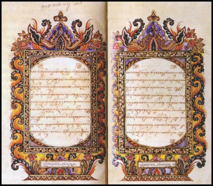 Illuminated manuscript of Carriyos Aneh.